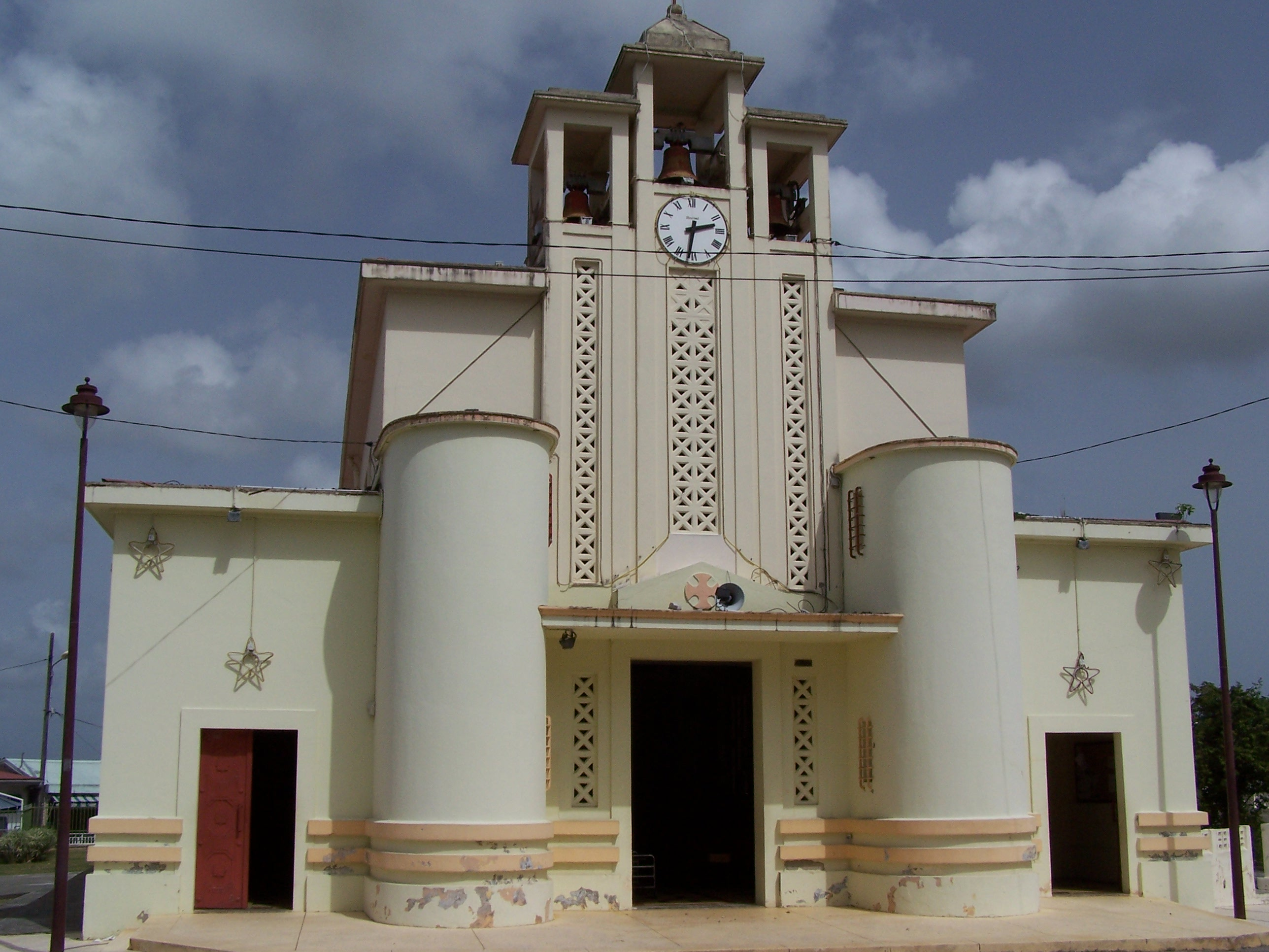 Église Saint-Jean-Baptiste de Baie-Mahault, Guadeloupe